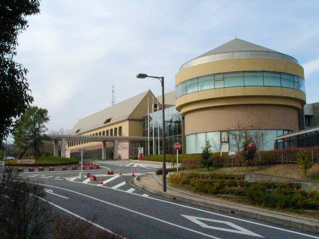 Ranzan Town Hall, Ranzan, Saitama, Japan